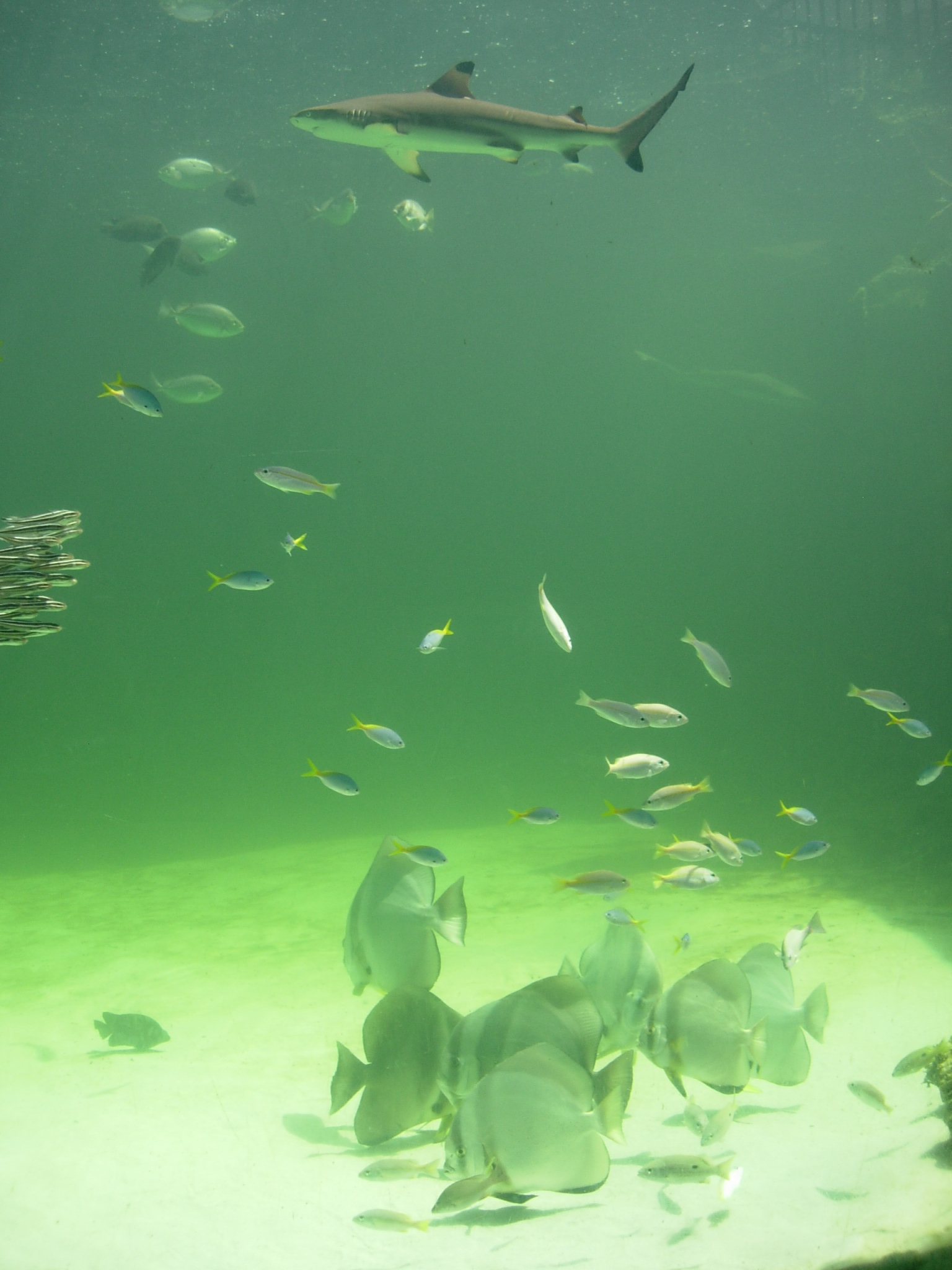 the green connection aquarium, kota kinabalu, sabah, malaysia, tourist, family, children